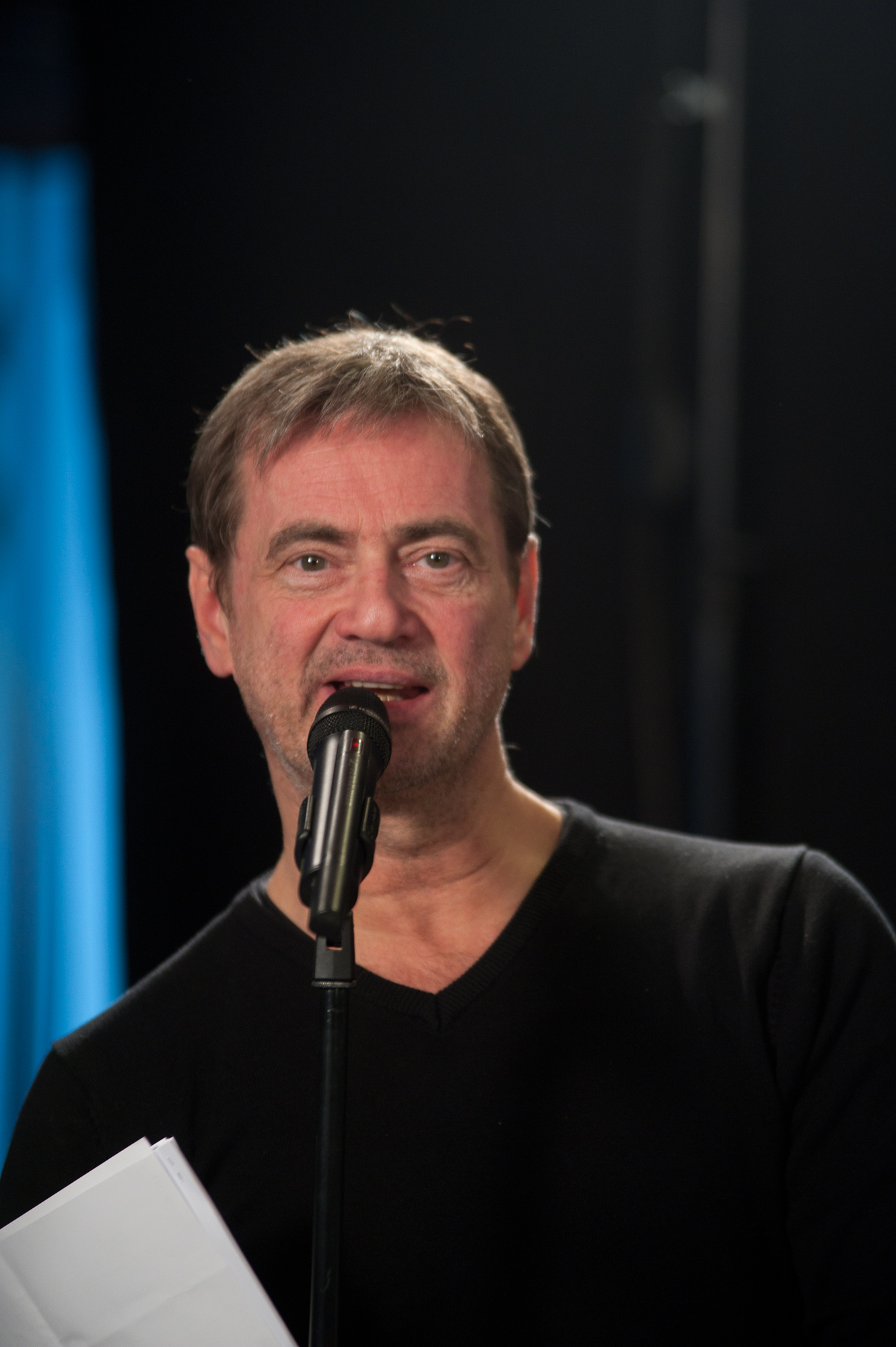 Christer Björkman 2010 at a press conference for Melodifestivalen 2011